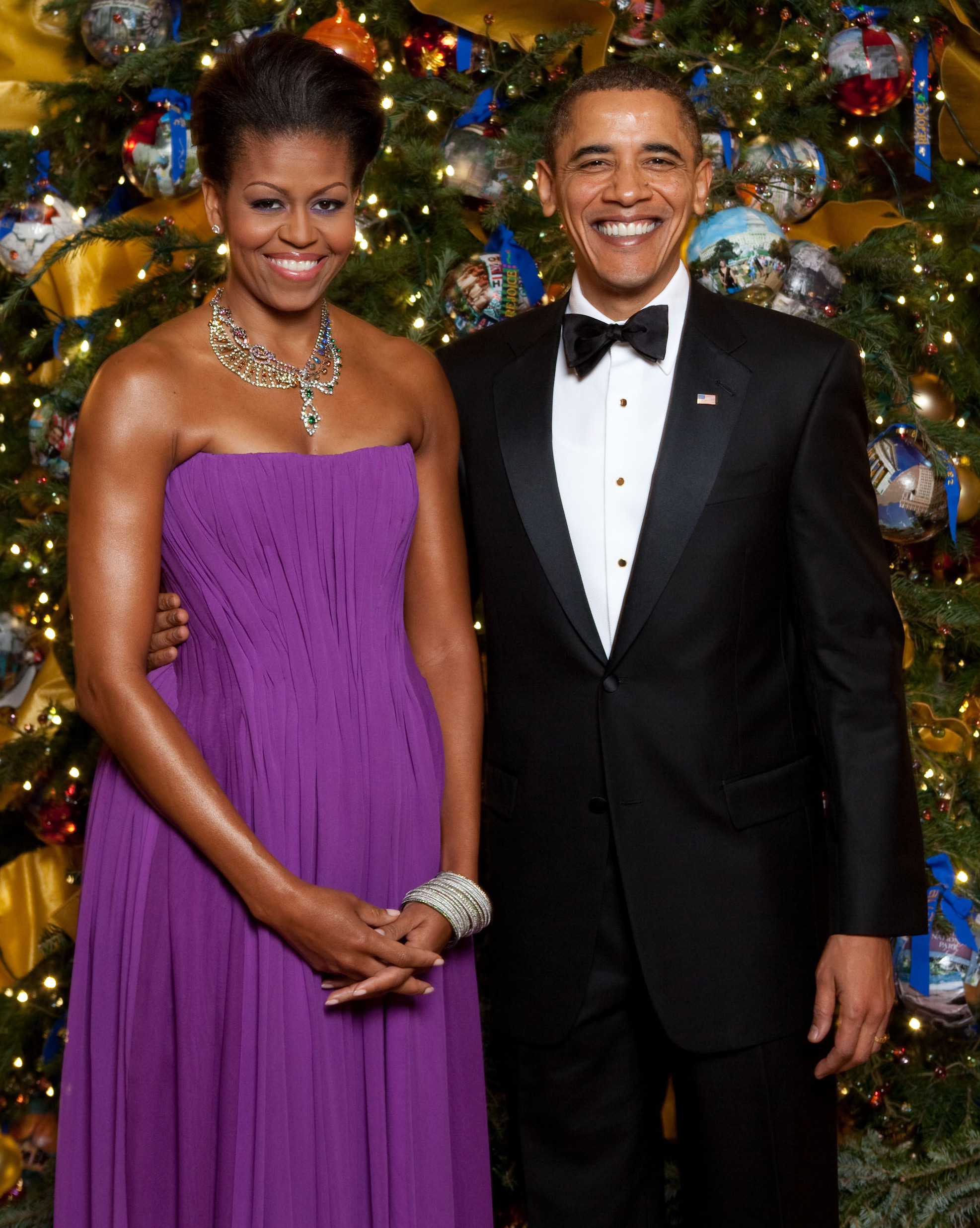 President Barack Obama and First Lady Michelle Obama pose for a formal portrait in front of the official White House Christmas Tree in the Blue Room of the White House, Dec. 6, 2009.